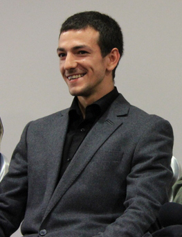 Collectormania 18's 'Game of Thrones' talk featuring Jason Momoa, Josef Altin and Finn Jones. 02-06-2012